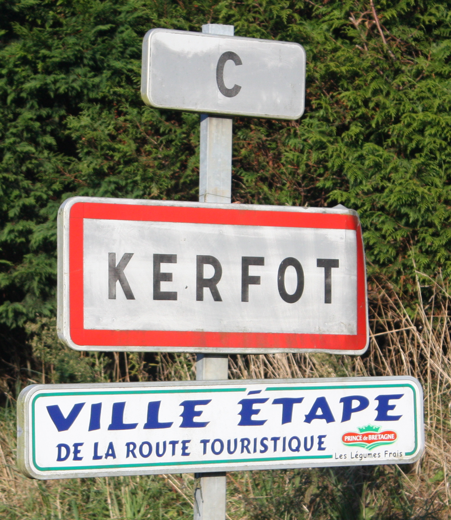 Panel entrance of the town of Kerfot (Côtes d'Armor, Brittany, France)